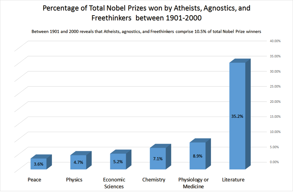 =Distribution of Atheists, agnostics, and Freethinkers in Nobel Prizes between 1901-2000, data took from Baruch A. Shalev, 100 Years of Nobel Prizes (2003),Atlantic Publishers & Distributors, p.59 and p.57: "Atheists, agnostics, and freethinkers comprise 10.5% of total Nobel Prize winners; but in the category of Literature, these preferences rise sharply to about 35%."